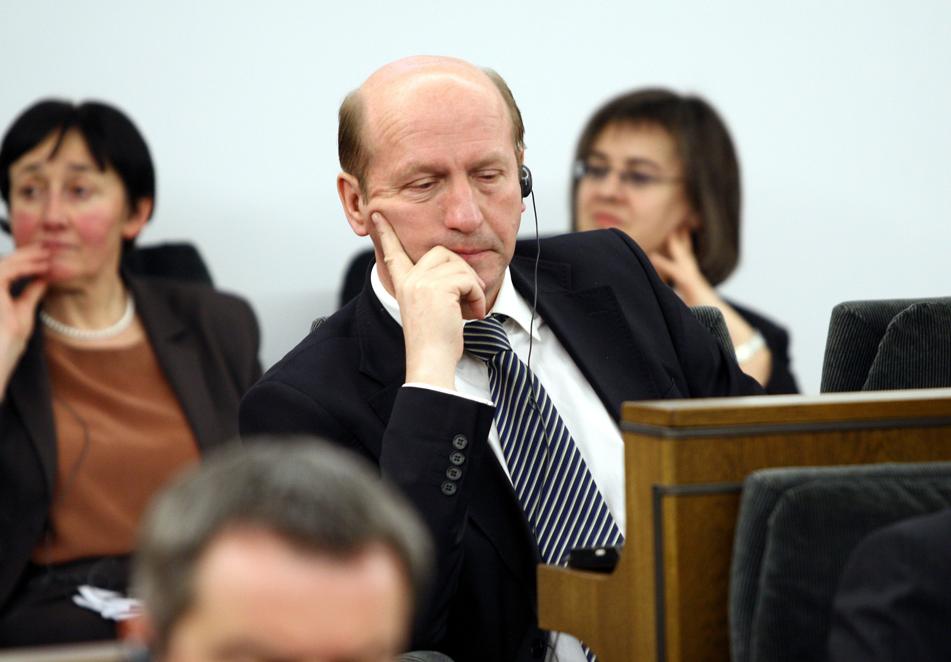 Maciej Płażyński during joint parliamentary assembly of deputies and senators commemorating the Constitution of May 3, 1791, in the Polish Senate